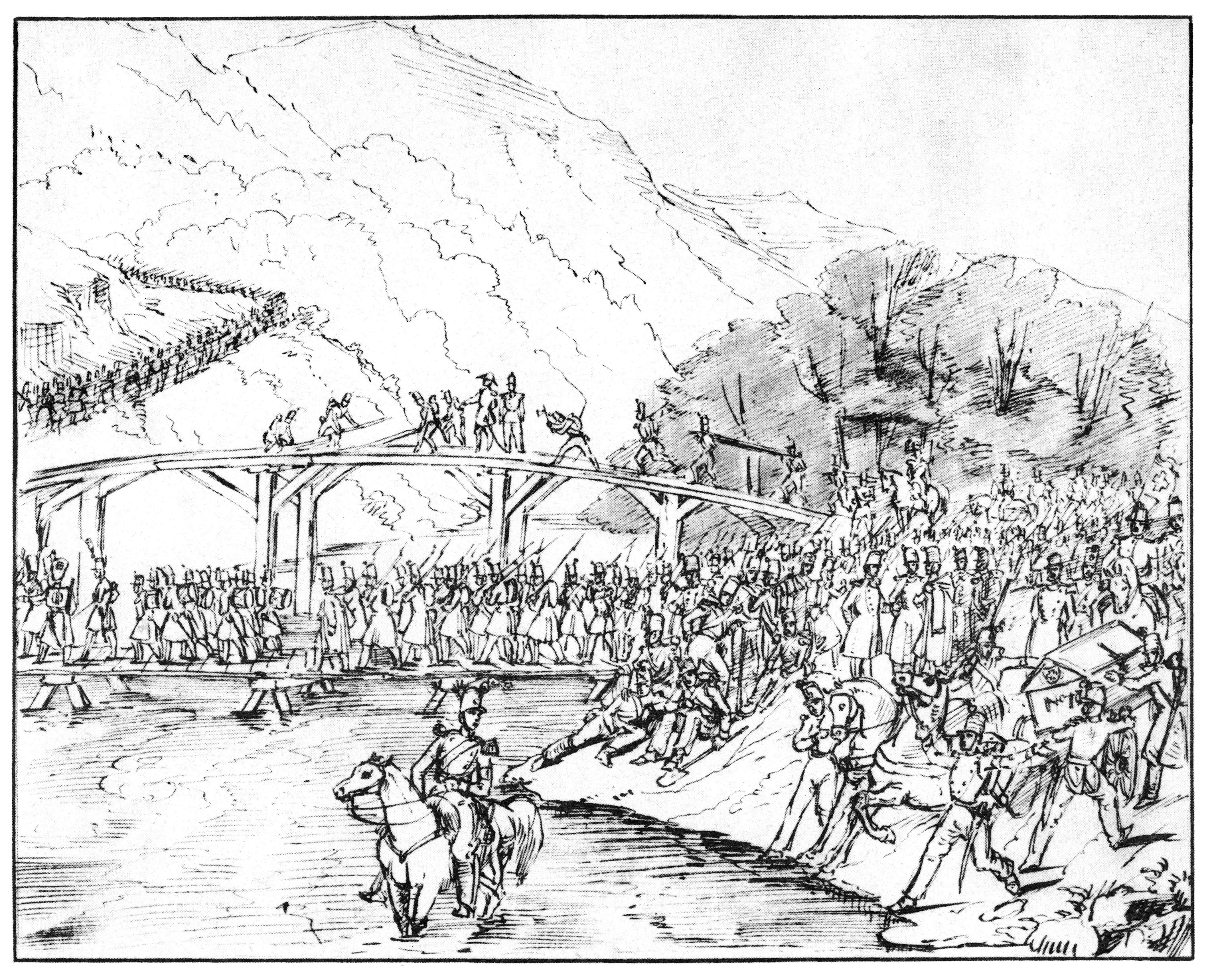 Sonderbund war 1847, Switzerland: Ink drawing by Lt. Charles-Alexandre Steinhäuslin, first company of the 19th batallion of the second brigade of the II. federal division.